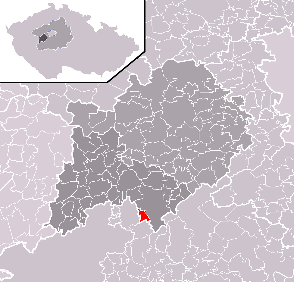 Location of Běštín municipality within Beroun District and administrative area of Hořovice as a Municipality with Extended Competence.